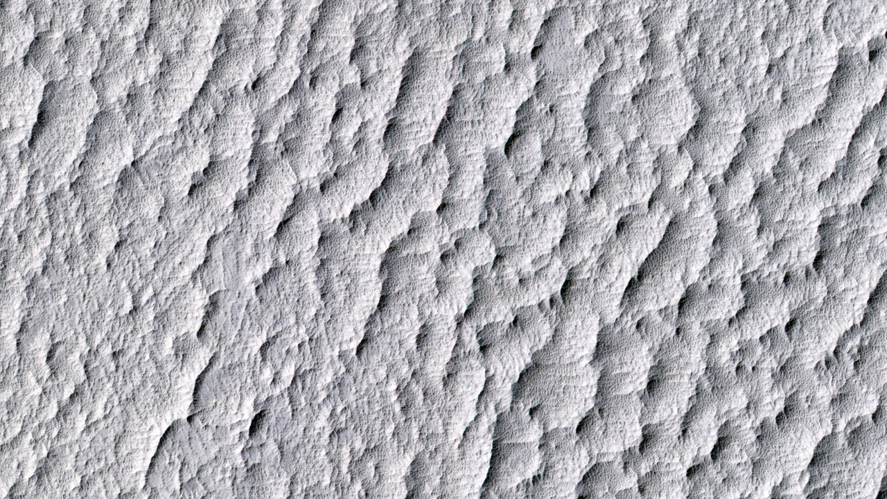 PIA19914: 'The Martian' Story's Ares 4 Landing Site This image from the High Resolution Imaging Science Experiment (HiRISE) camera on NASA's Mars Reconnaissance Orbiter shows a location on Mars associated with the best-selling novel and Hollywood movie, "The Martian." It is the science-fiction tale's planned landing site for the Ares 4 mission. The novel placed the Ares 4 site on the floor of a very shallow crater in the southwestern corner of Schiaparelli Crater. This HiRISE image shows a flat region there entirely mantled by bright Martian dust. There are no color variations, just uniform reddish dust. A pervasive, pitted texture visible at full resolution is characteristic of many dust deposits on Mars. No boulders are visible, so the dust is probably at least a meter thick. Past Martian rover and lander missions from NASA have avoided such pervasively dust-covered regions for two reasons. First, the dust has a low thermal inertia, meaning that it gets extra warm in the daytime and extra cold at night, a thermal challenge to survival of the landers and rovers (and people). Second, the dust hides the bedrock, so little is known about the bedrock composition and whether it is of scientific interest. This view is one image product from HiRISE observation ESP_042014_1760, taken July 14, 2015, at 3.9 degrees south latitude, 15.2 degrees east longitude. The University of Arizona, Tucson, operates HiRISE, which was built by Ball Aerospace & Technologies Corp., Boulder, Colorado. NASA's Jet Propulsion Laboratory, a division of the California Institute of Technology in Pasadena, manages the Mars Reconnaissance Orbiter Project for NASA's Science Mission Directorate, Washington. Lockheed Martin Space Systems, Denver, built the orbiter and collaborates with JPL to operate it.